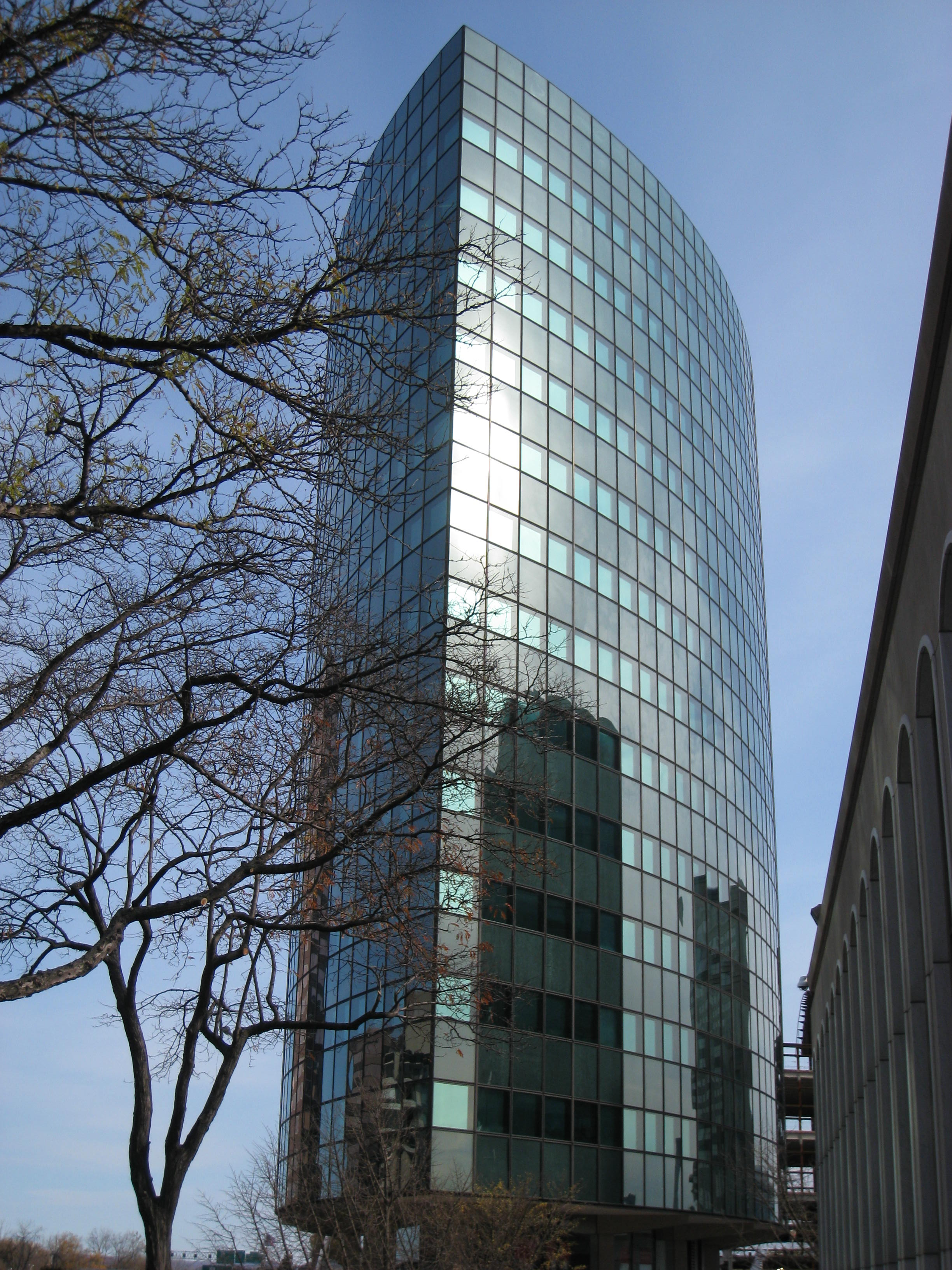 Edge view - Phoenix Mutual Life Insurance Building, Constitution Plaza, Hartford, Connecticut, USA. Max Abramovitz, architect. Completed 1964.